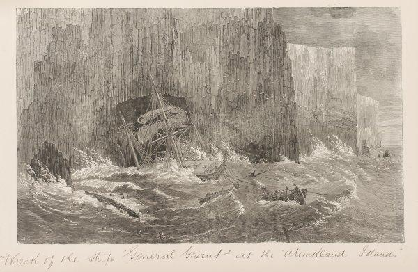 Wreck of the ship General Grant at the Auckland Islands